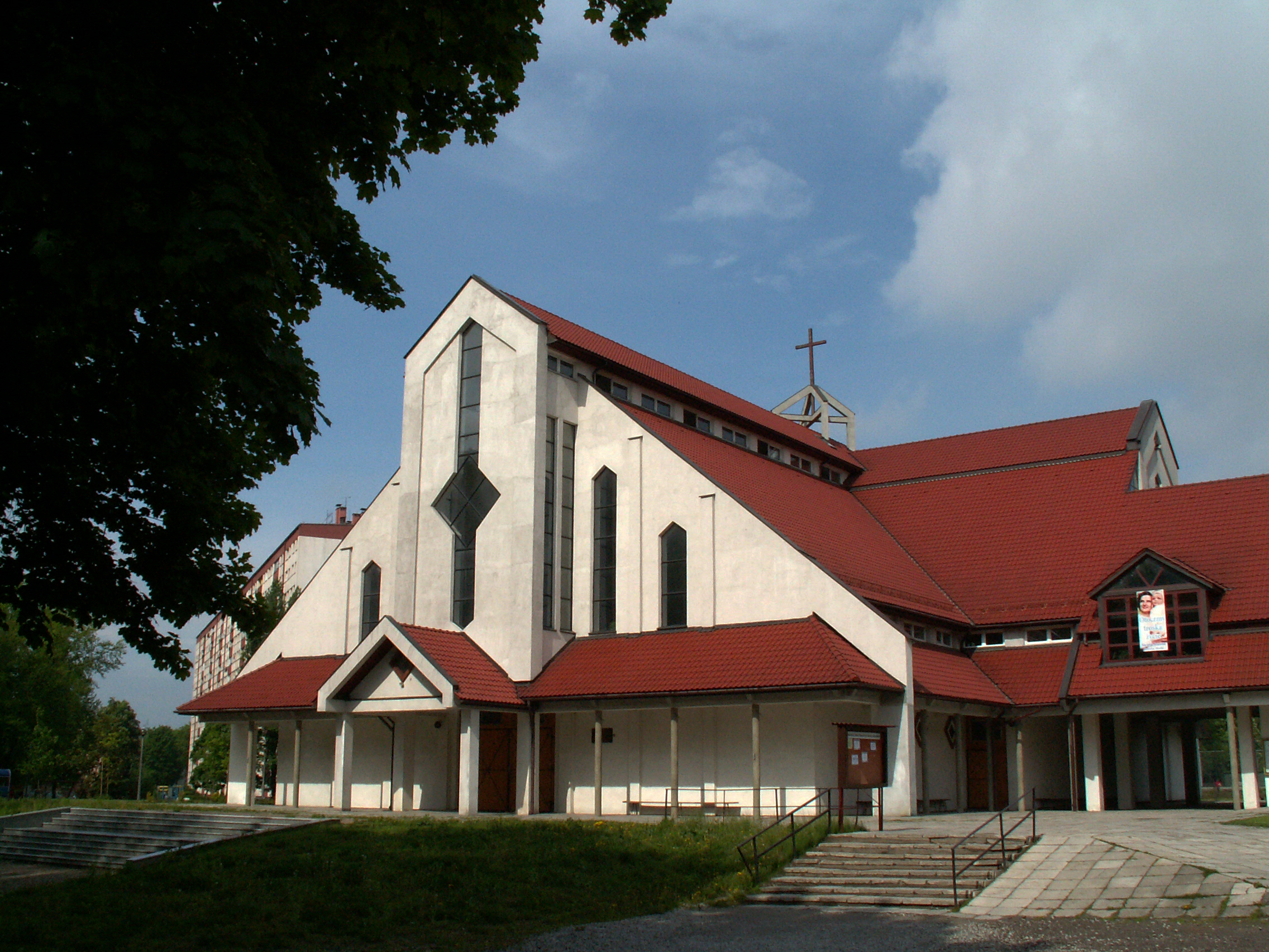 Church of St Joseph, 5 os. Kalinowe, Nowa Huta, Krakow, Poland